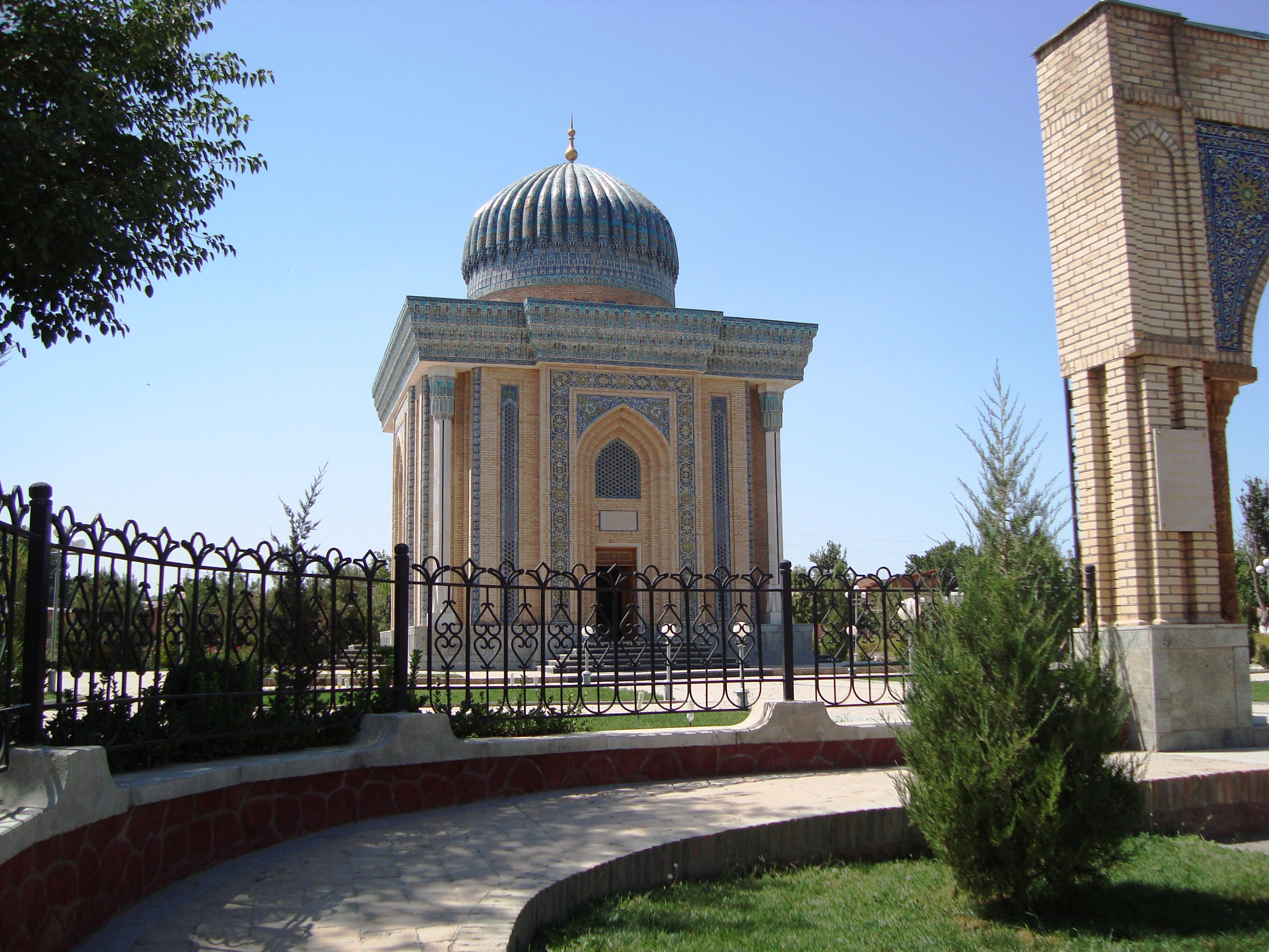 Türbe of Imam Abu Mansur al-Maturidi.